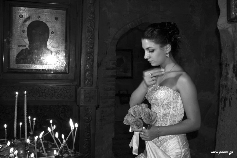 Georgian bride in church